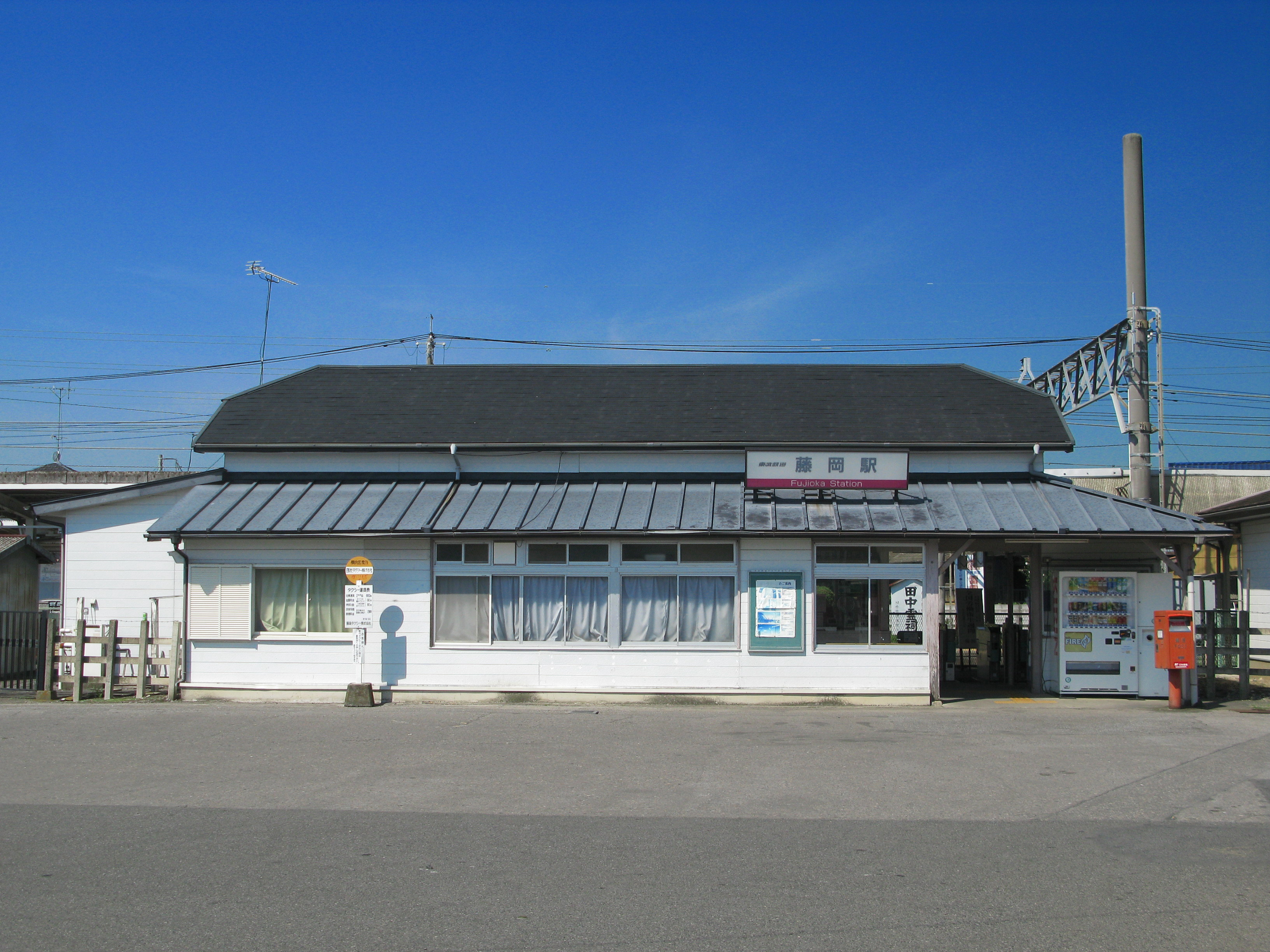 Fujioka Station on the Tōbu Nikkō Line in Tochigi, Tochigi Prefecture, Japan